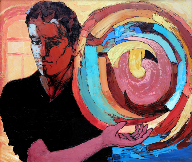 Self-portrait Gypsy construct (oil on canvas, 68x53 cm)